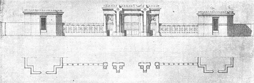 Design of Altamura cemetery by Altamura's engineer Alberto Gennarini - ca. 1904